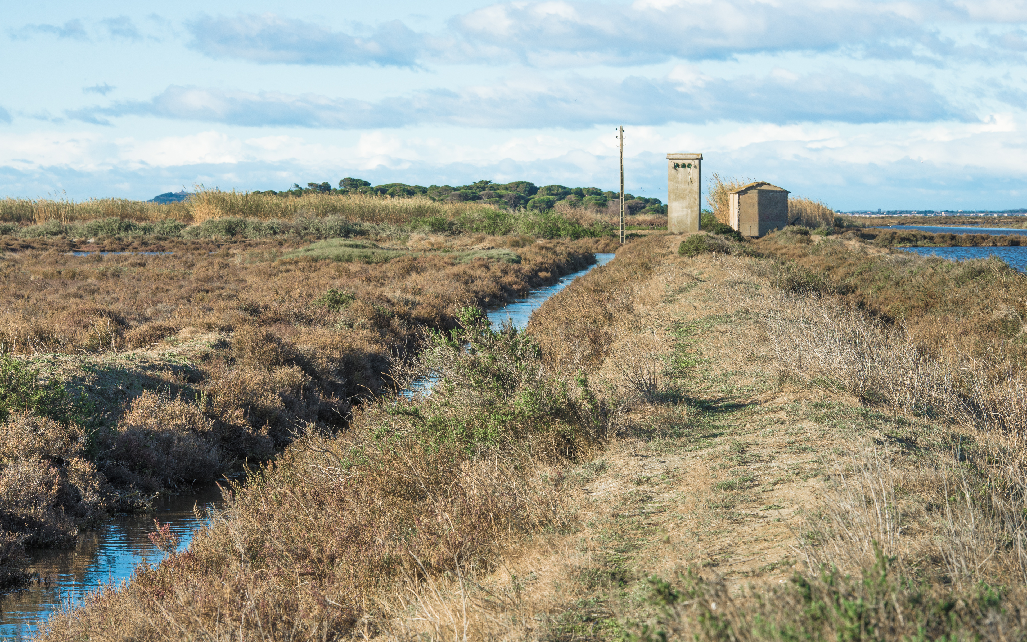 A former pumping station in former salt evaporation ponds ("salins de Villeroy"). The place is named "Lido de Thau" and is protected by the Conservatoire du littoral. Sète, Hérault, France.